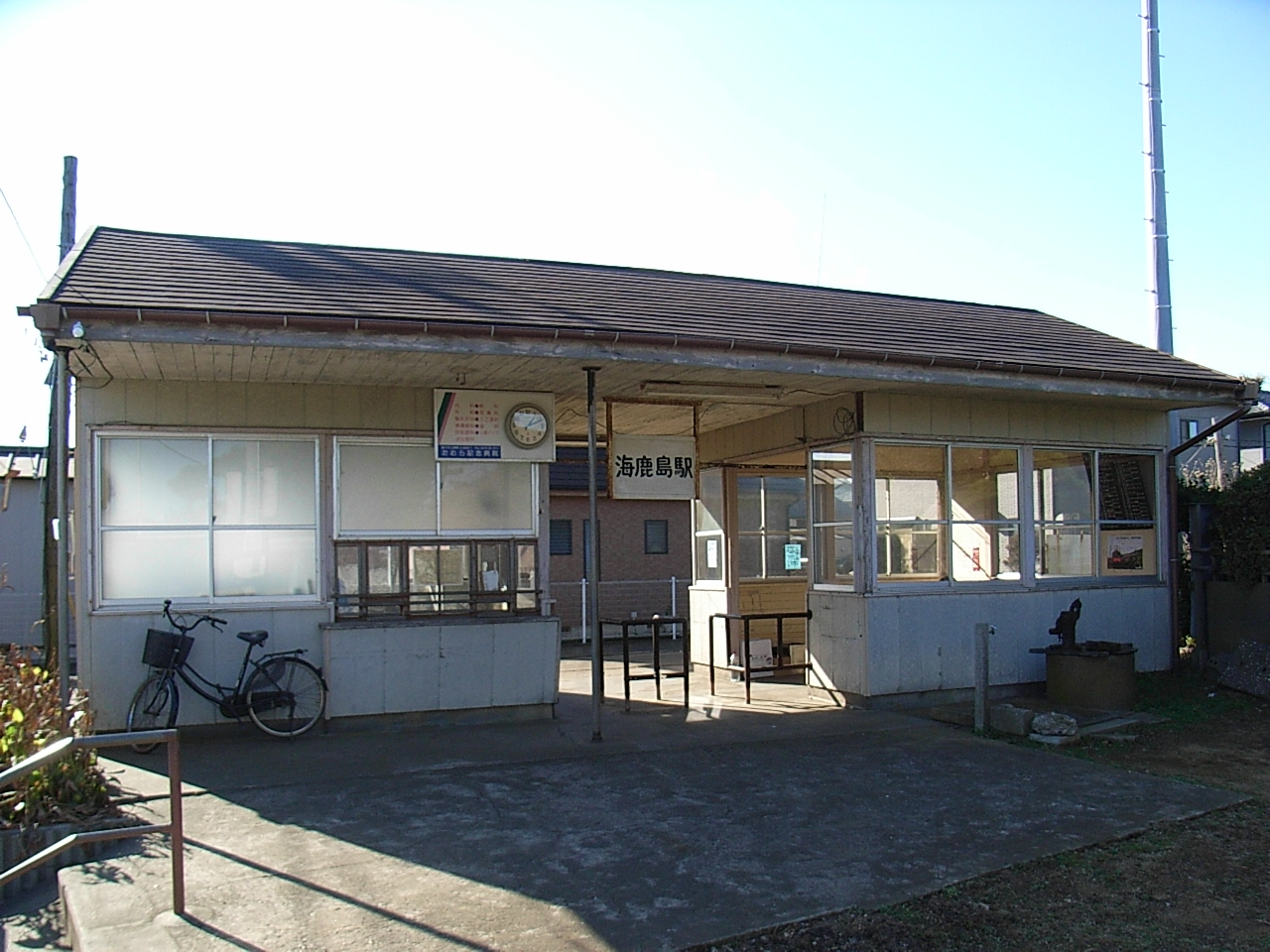 Ashikajima Station on the Choshi Electric Railway in Chiba, Japan